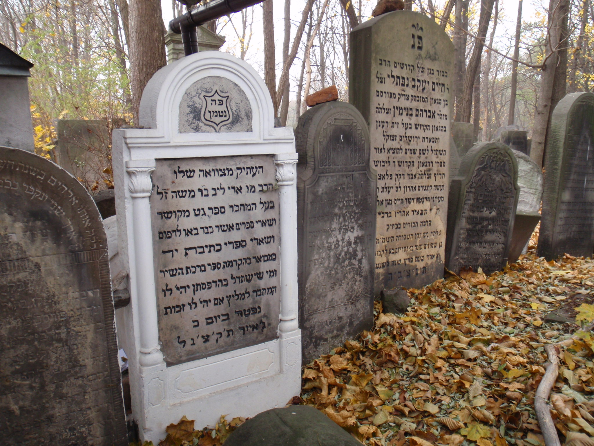 Ohel of Aryeh Leib Tzintz